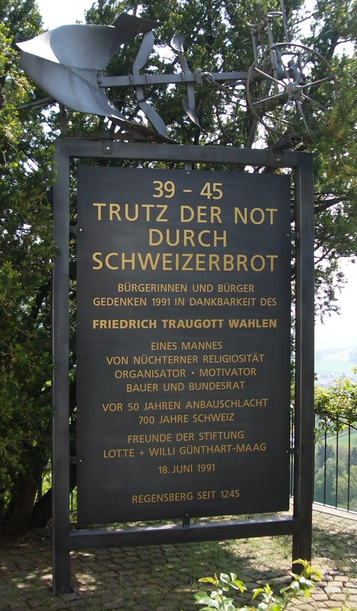 Regensberg ZH, Switzerland